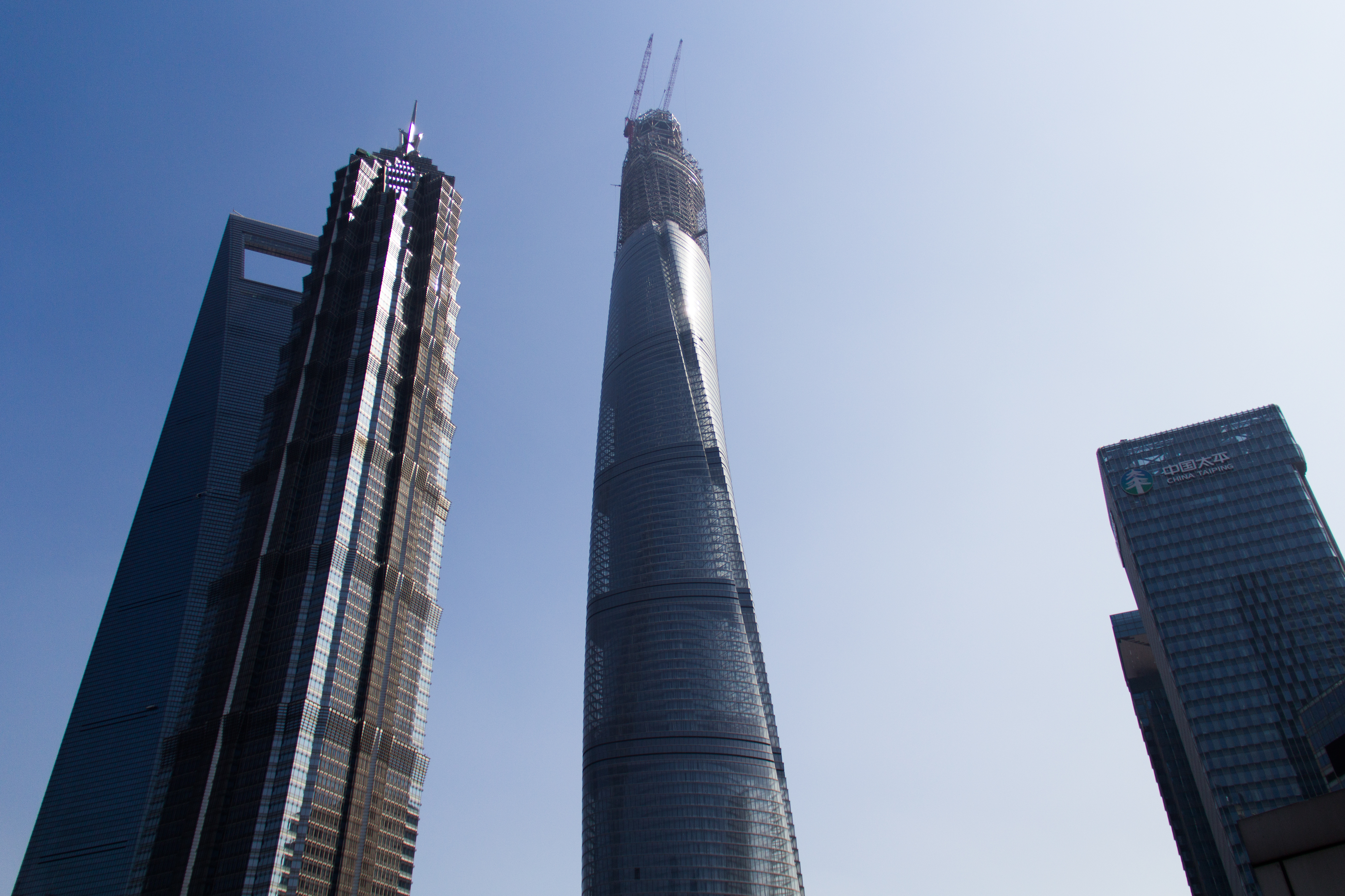 Shanghai Tower (center) as of March 2014